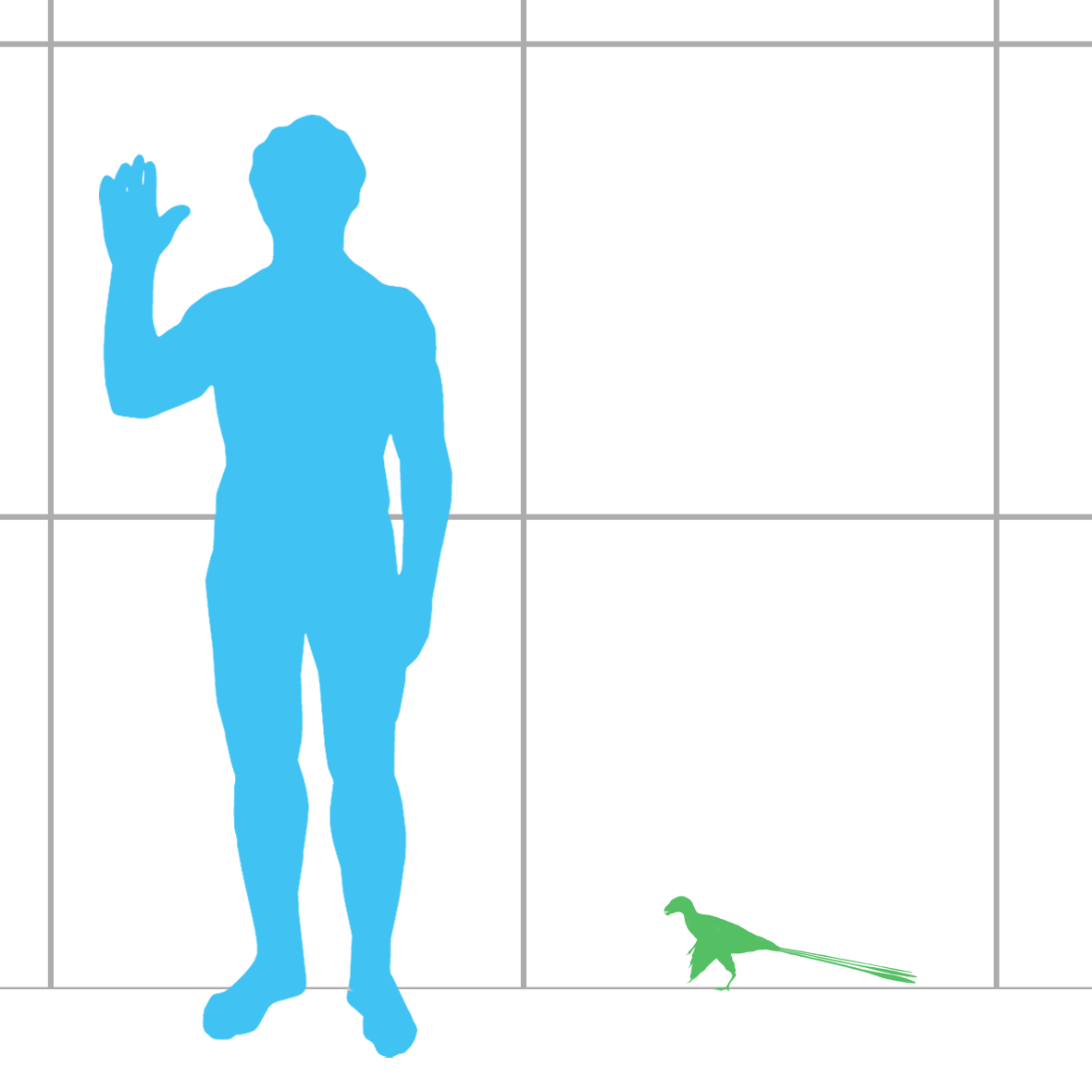 Size of Epidexipteryx hui (holotype specimen) compared with a human.